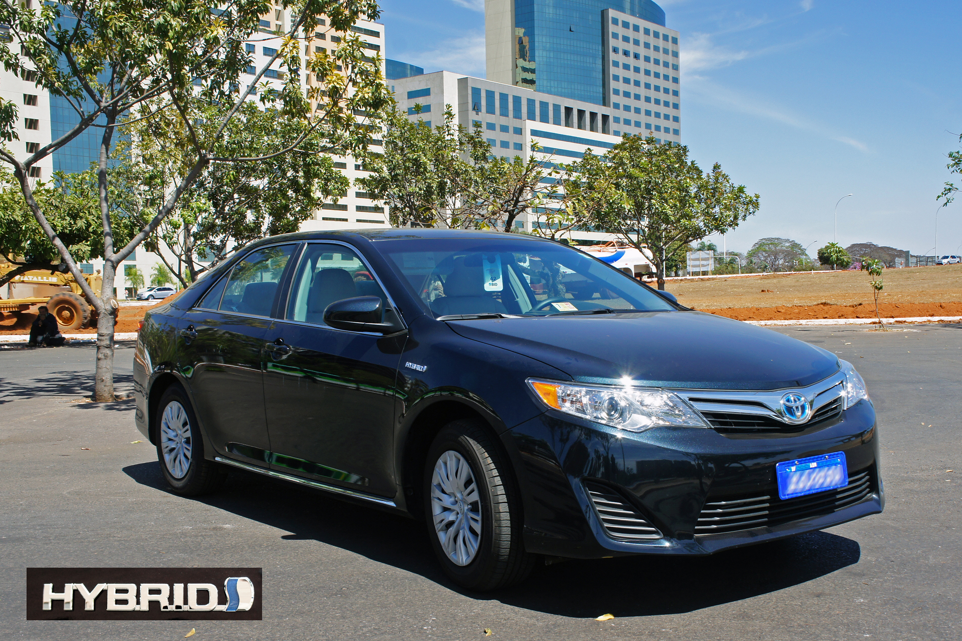 2012 Toyota Camry Hybrid with diplomatic plates in Brasília, Brazil. Inset with Toyota's hybrid badge.